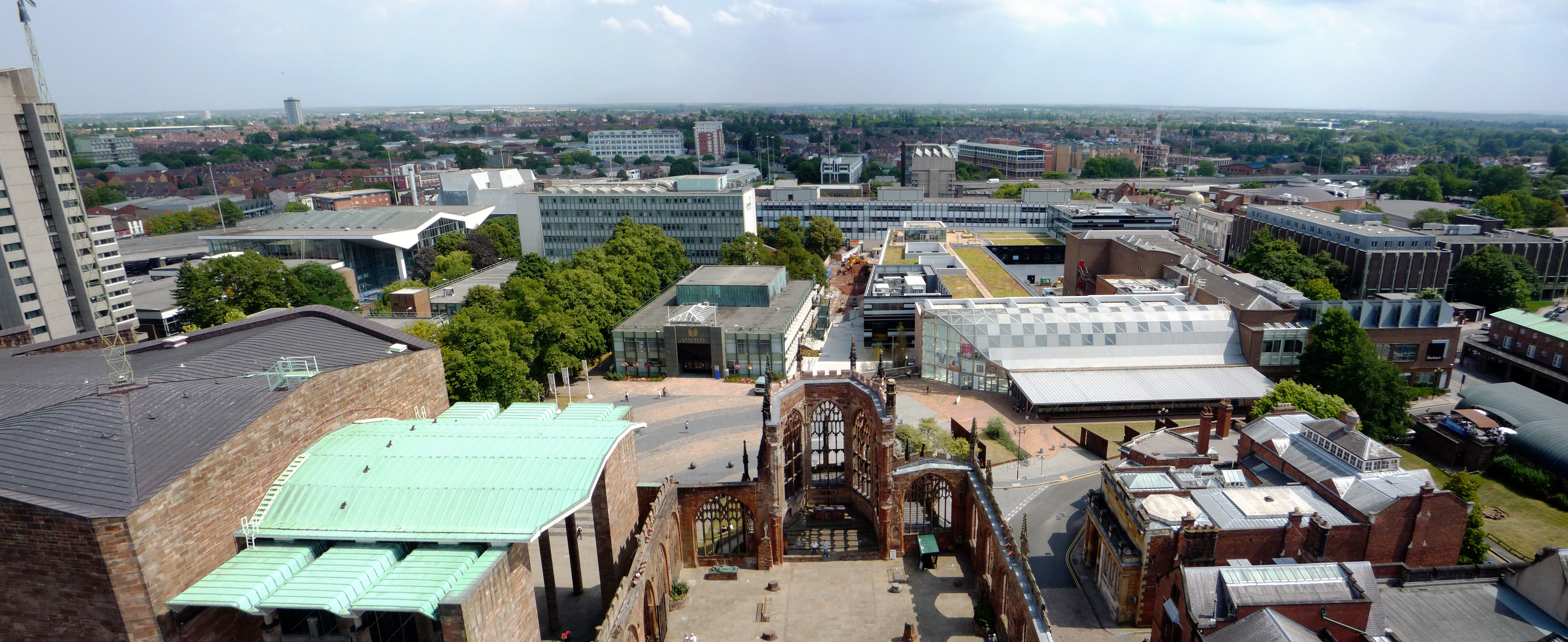 View east from the west tower of Coventry Cathedral, across the ruined nave of the old cathedral toward Coventry University